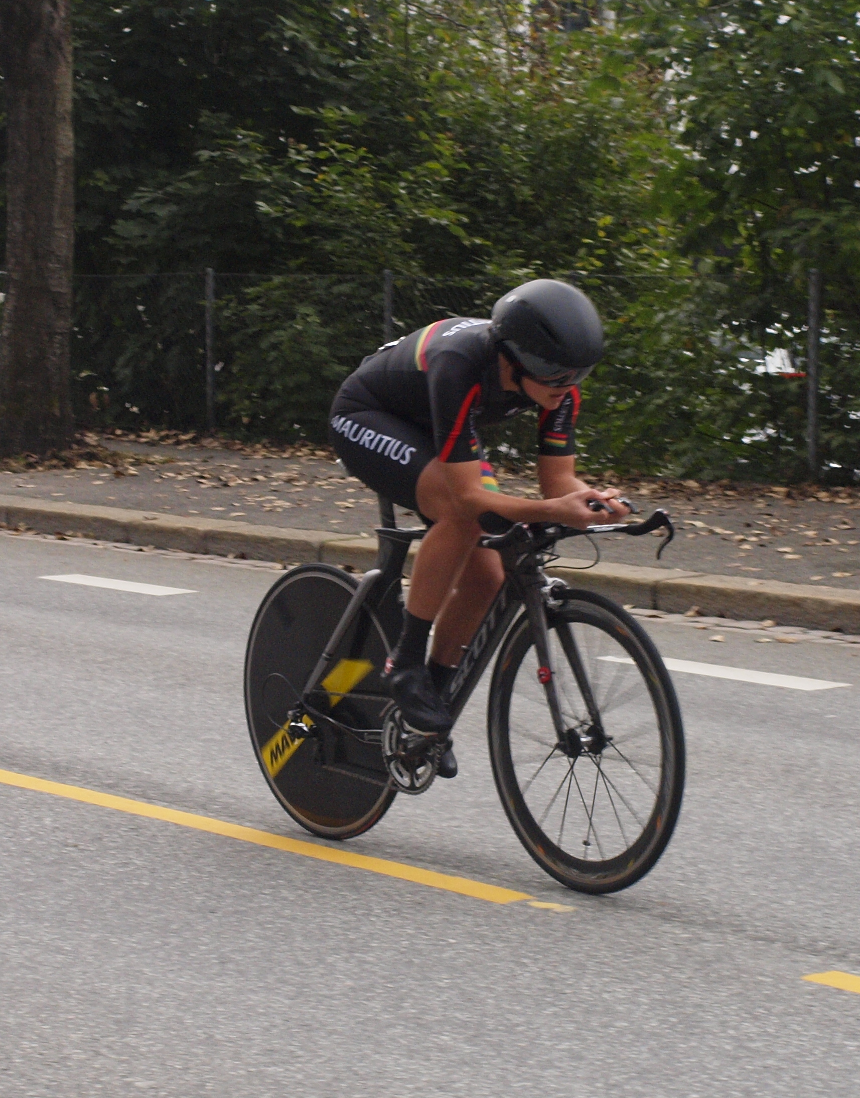 Aurelie Halbwachs at the 2017 UCI World Championships